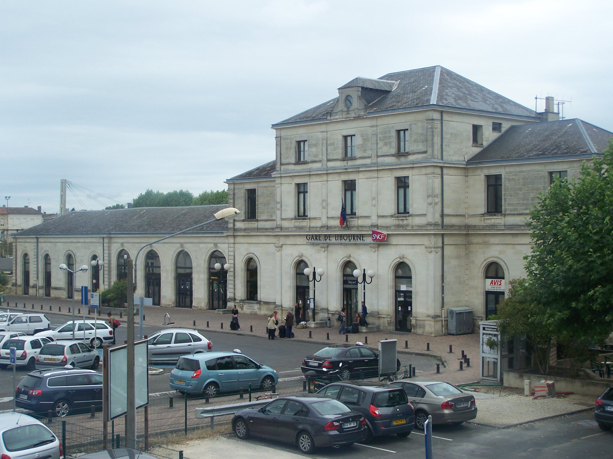 Front of the French city of Libourne station, in Gironde.